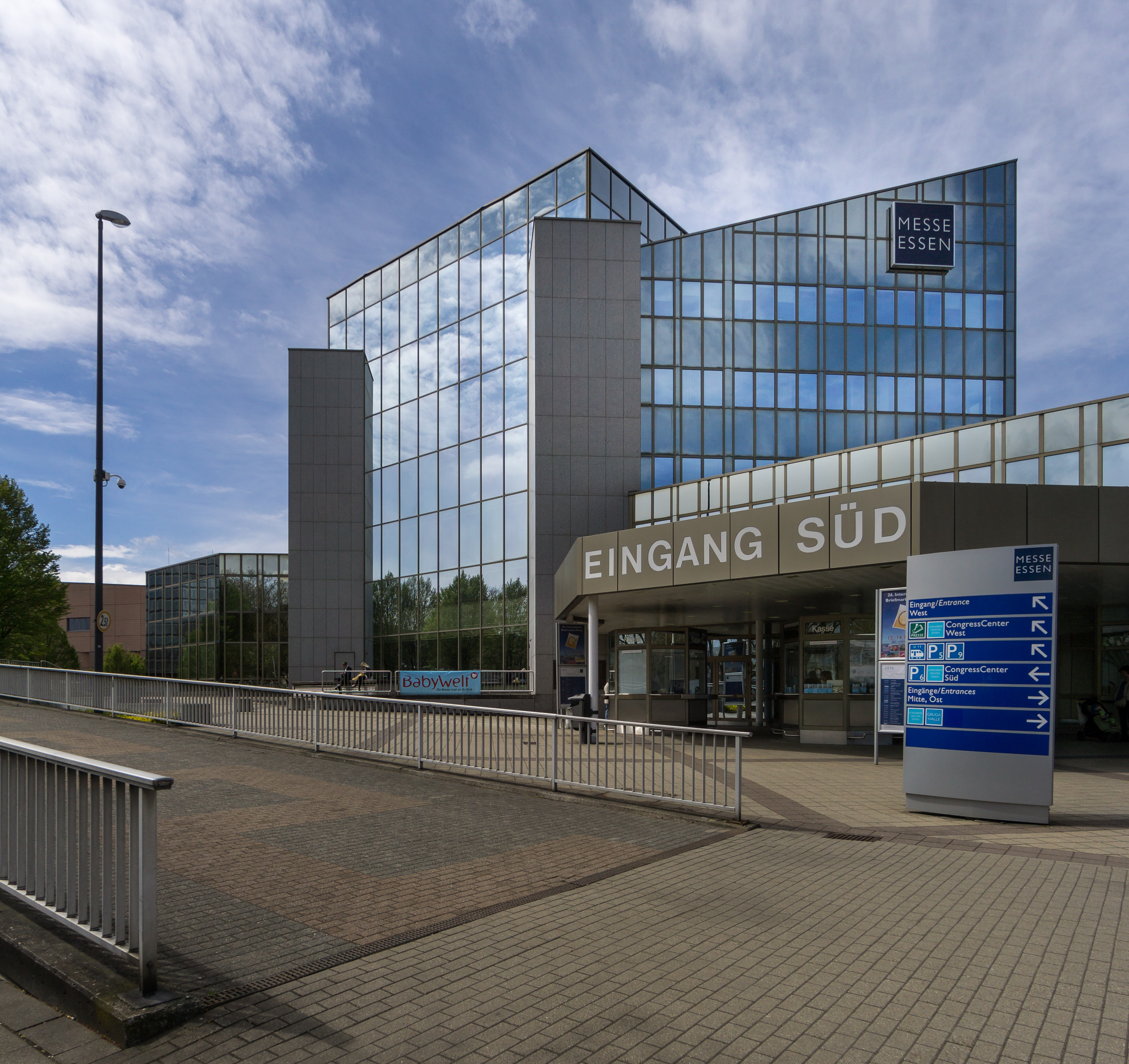 Trade fair Essen, entry south